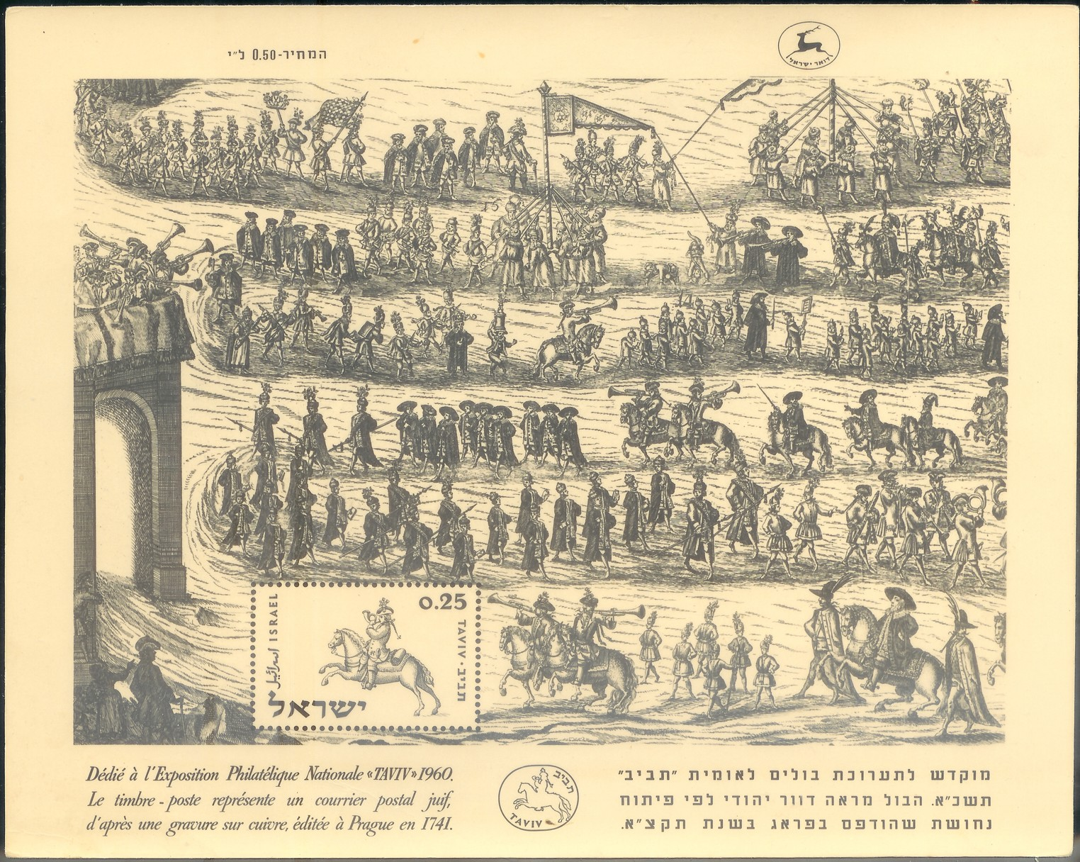 Israel Block 1960 TAVIV Proof